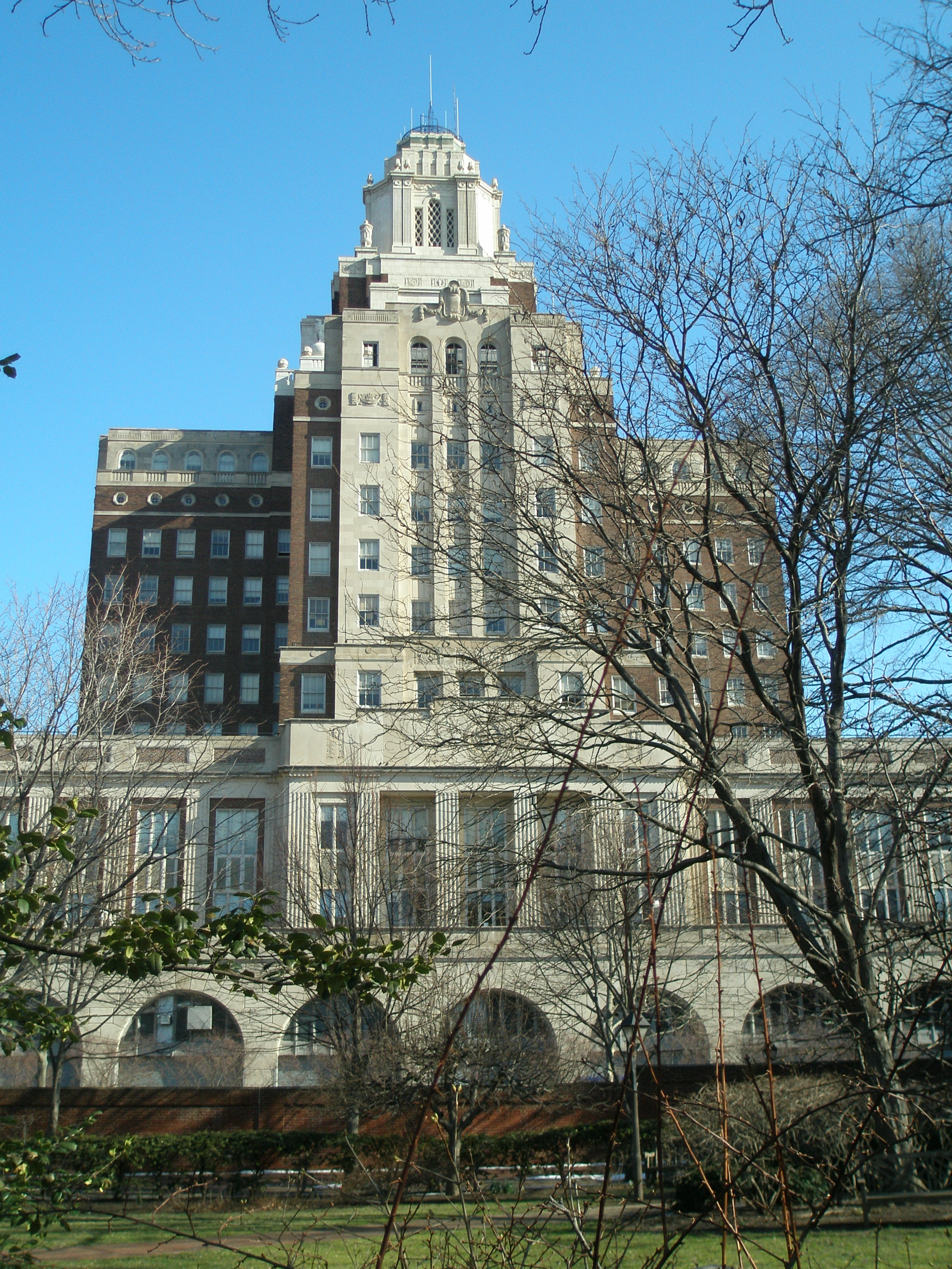 Customs House, Philadelphia